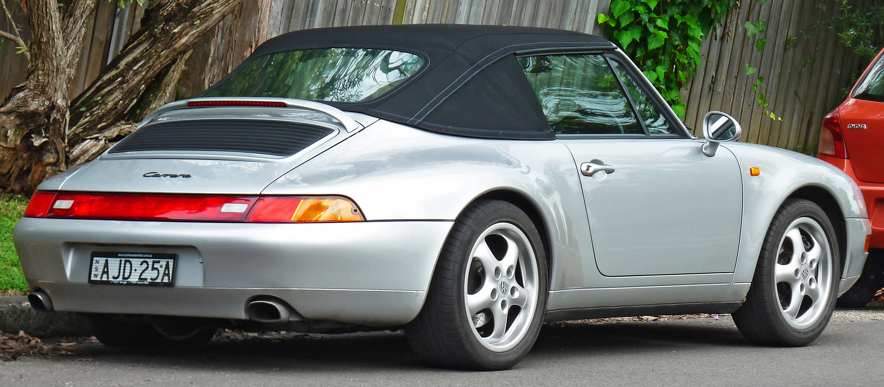 1997 Porsche 911 Carrera (993) convertible. Photographed in Gordon, New South Wales, Australia.